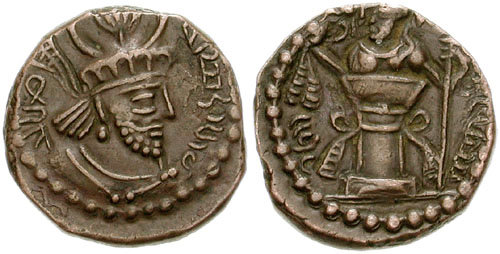 Coin of Peroz II Kushanshah.